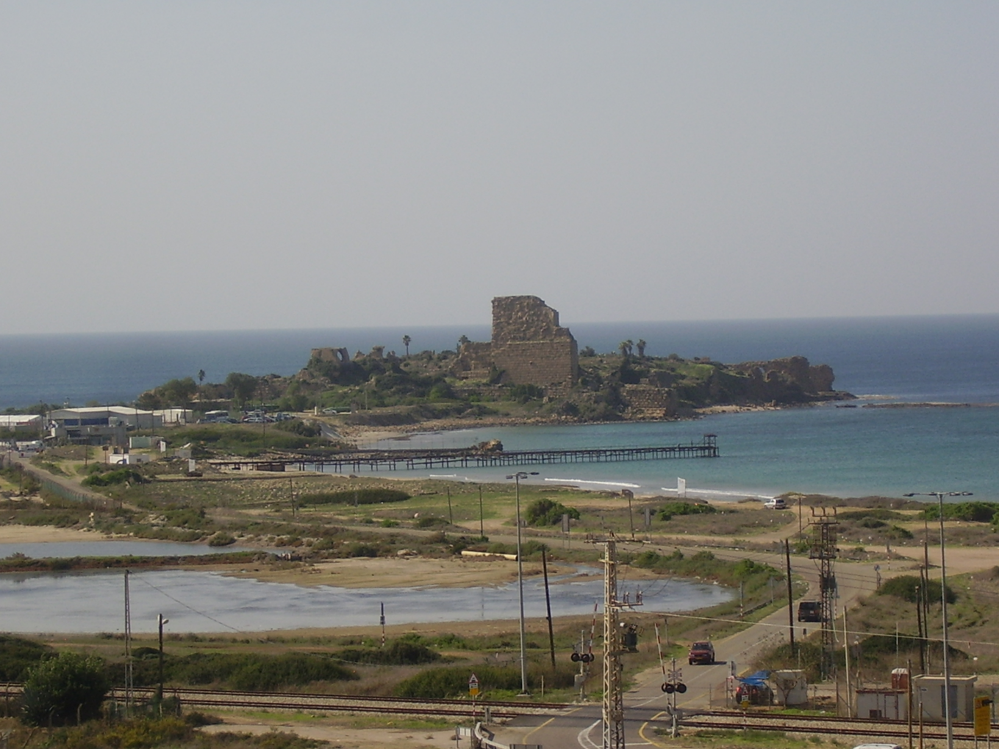 chateau pelerin (atlit) fortress מצודת עתלית